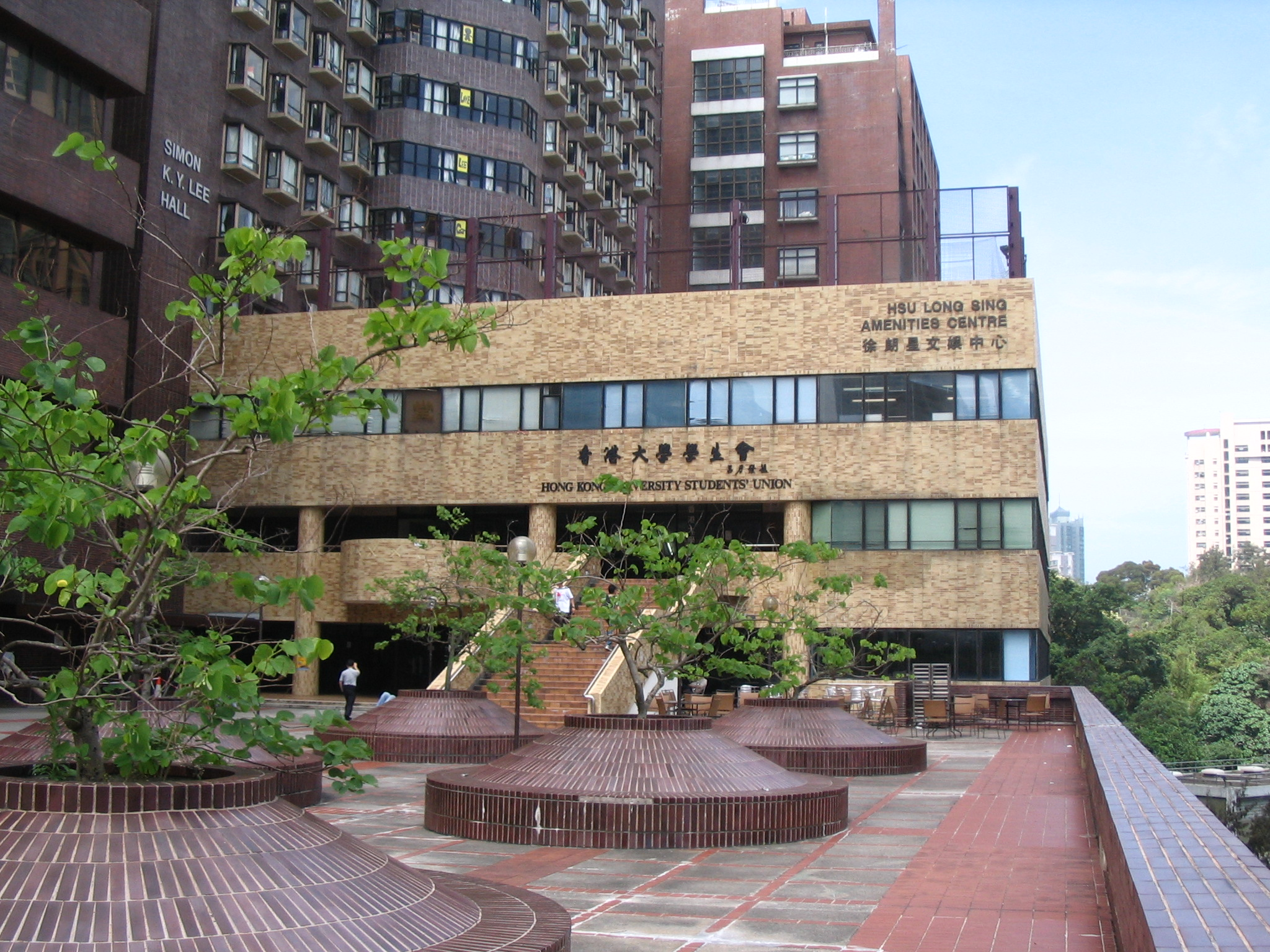 Photo of Hong Kong University Students' Union